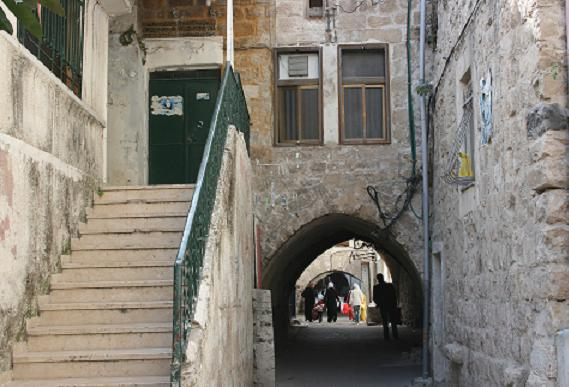 This is one of the passageways in the Old City of Nablus that leads to and from the souq in the center of the city.